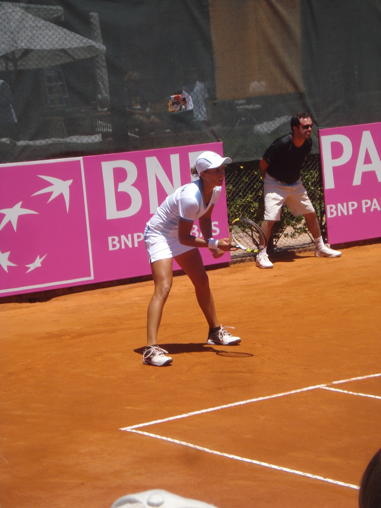 María Irigoyen (Tandil, Argentina, 1987) prepared to receive during her match against María Fernanda Álvarez, from Bolivia (Fed Cup 2011, Tenis Club Argentino).